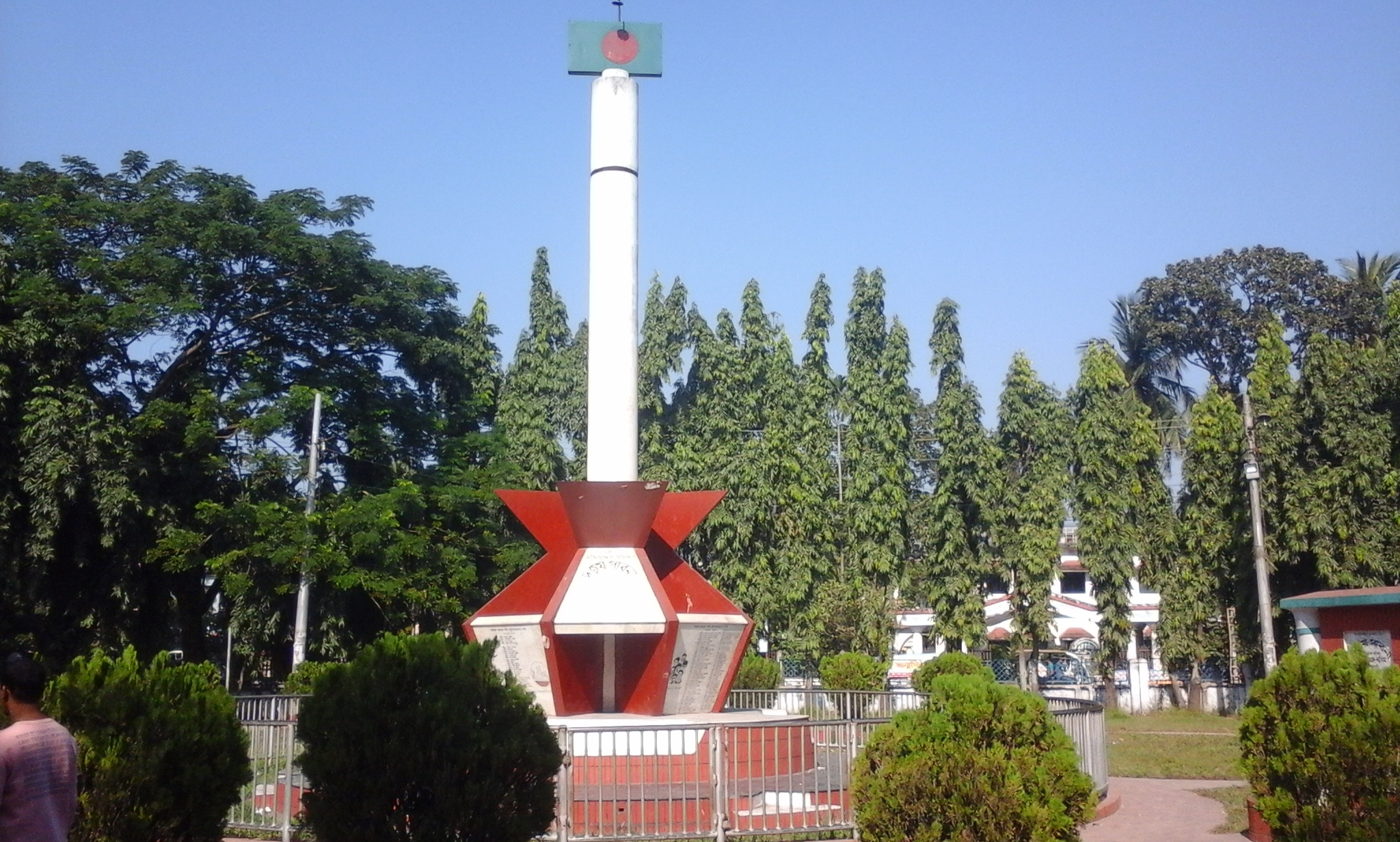 Durjoy jagoron pabna in Bangladesh.